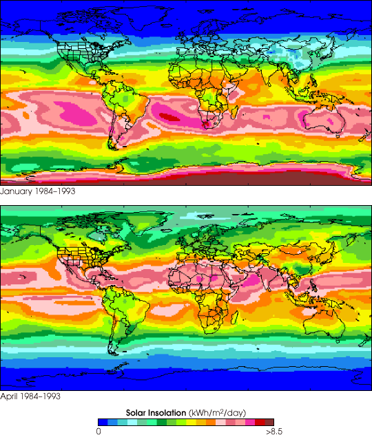 Measuring Solar Insolation April 19, 2001 These false-color images show the average solar insolation, or rate of incoming sunlight at the Earth's surface, over the entire globe for the months of January and April. The colors correspond to values (kilowatt hours per square meter per day) measured every day by a variety of Earth-observing satellites and integrated by the International Satellite Cloud Climatology Project (ISCCP). NASA's Surface Meteorology and Solar Energy (SSE) Project compiled these data--collected from July 1983 to June 1993--into a 10-year average for that period. Such images are particularly useful to engineers and entrepreneurs who develop new technologies for converting solar energy into electricity. To attain best results, most devices for harvesting sunlight require an insolation of greater than 3 to 4 kilowatt hours per square meter per day. Luckily, insolation is quite high year round near the equator, where roughly a billion people around the world must spend more money on fuel for cooking than they have to spend on food itself. Natural renewable energy resources is a particularly relevant topic in the United States today as there are rolling blackouts across the state of California while other U.S. city and state governments grapple with energy deregulation issues. To facilitate development of new technologies for harvesting natural renewable energy sources, the SSE Project at NASA's Langley Research Center has made available a wealth of global-scale data on a variety of meteorological topics, including insolation, cloud cover, air temperature, and wind speed and direction. These data are freely available at the SSE Project Web Page.